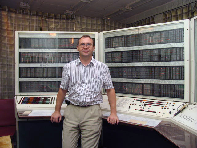 Soviet mainframe computer BESM-6 in Sosnovy Bor. Sergey Vakulenko, author of the photo on the front.